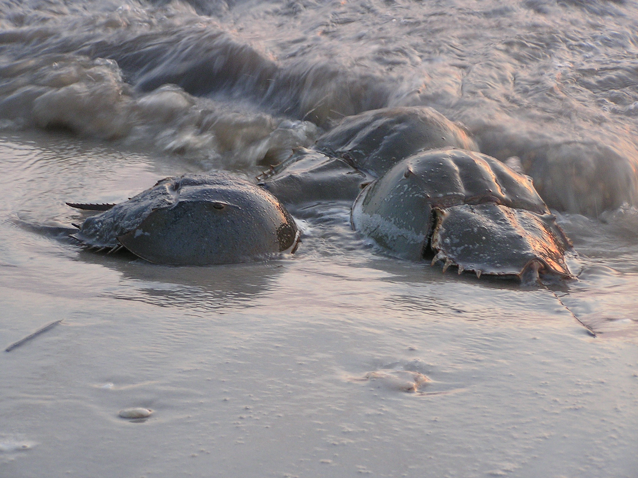 Horseshoe crabs at Cape May National Wildlife Refuge. Credit: Laurel Wilkerson / USFWS